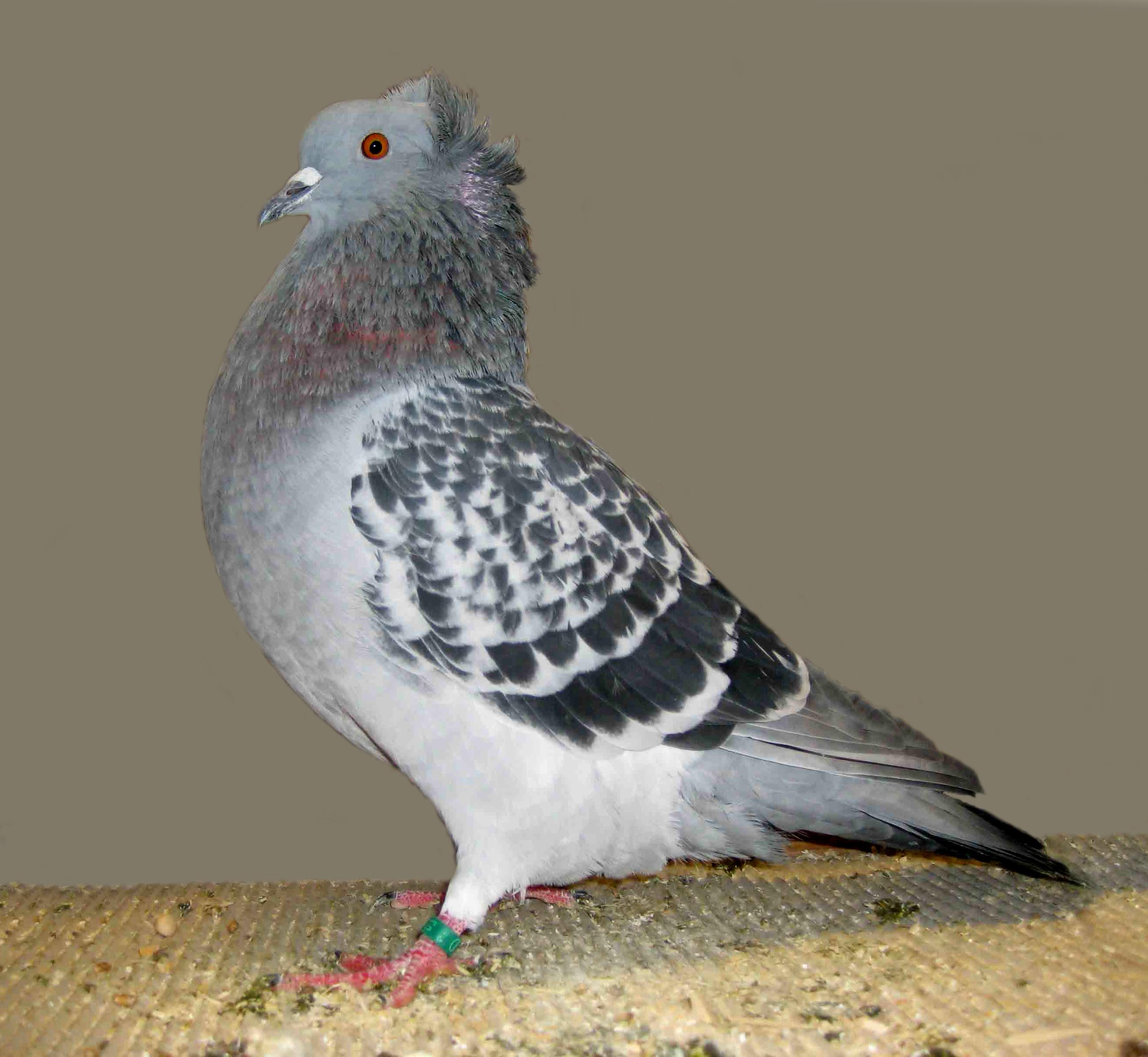 Crested Soultz (Blue Chequer)